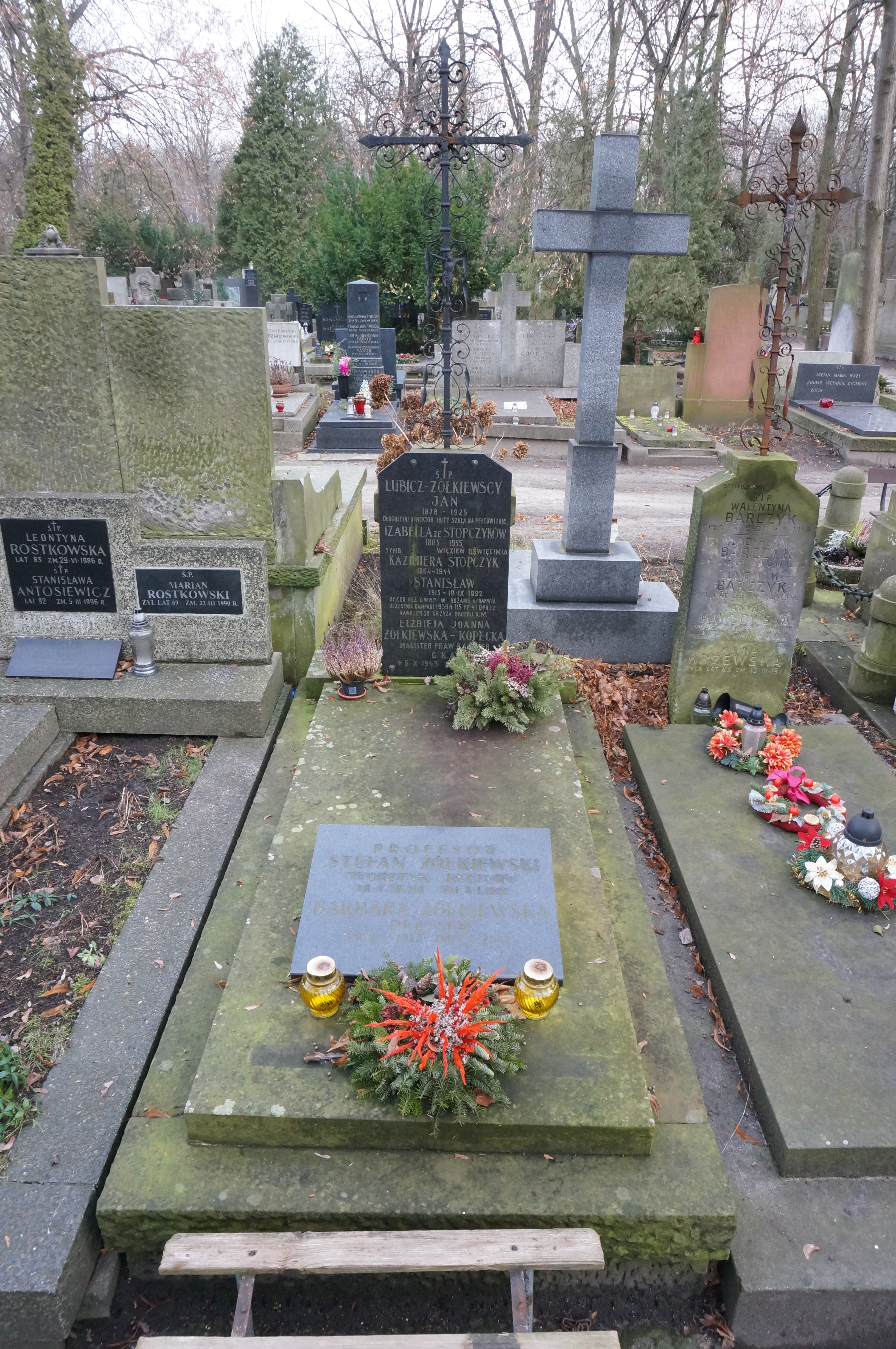 The grave of Stefan Żółkiewski at the Powązki Cemetery (section 222, row 2, grave 26)